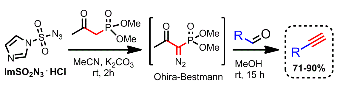 Safe and scalable synthesis of alkynes from aldehydes